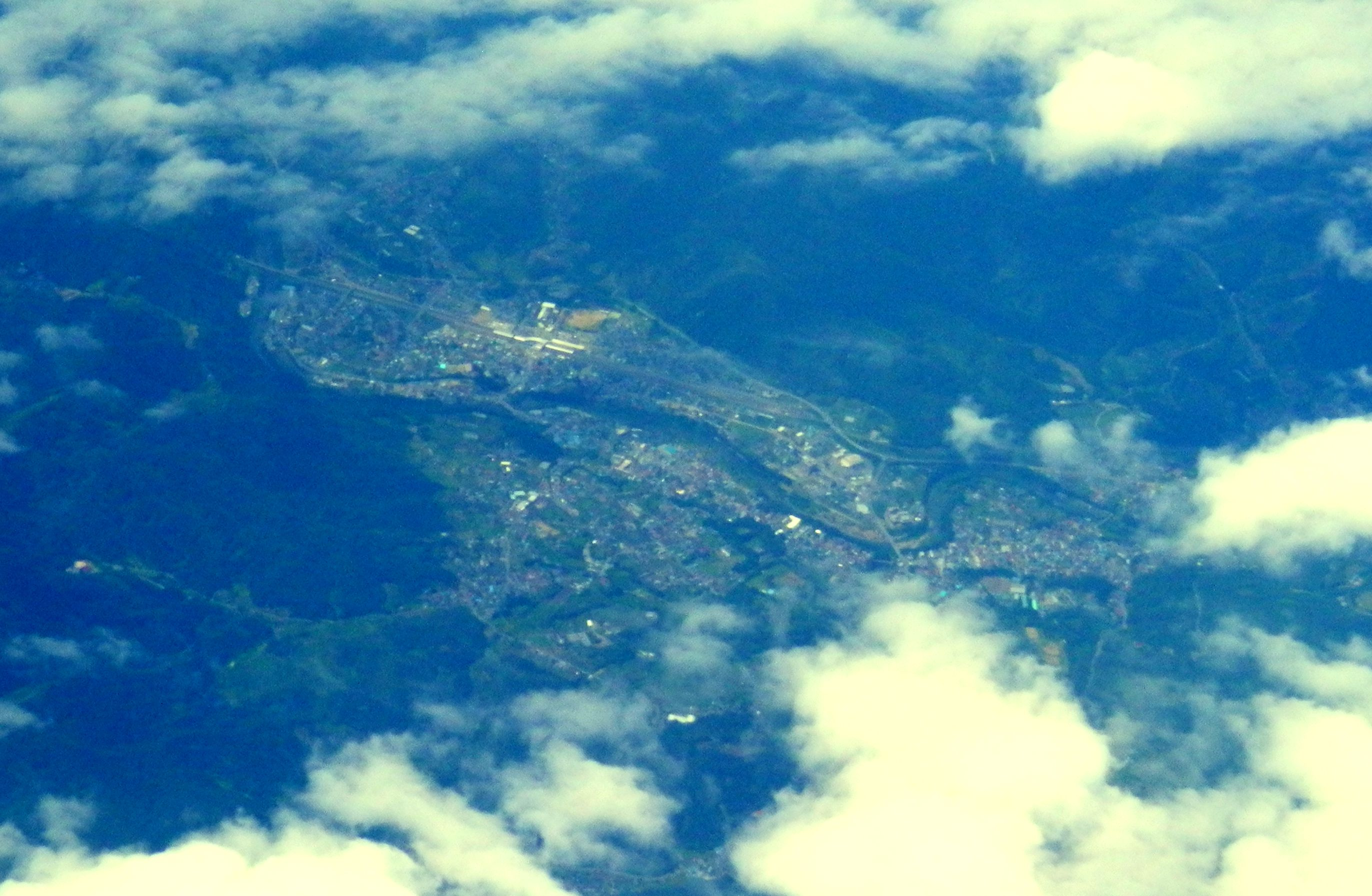 A view of Ninohe, Iwate from an aeroplane.